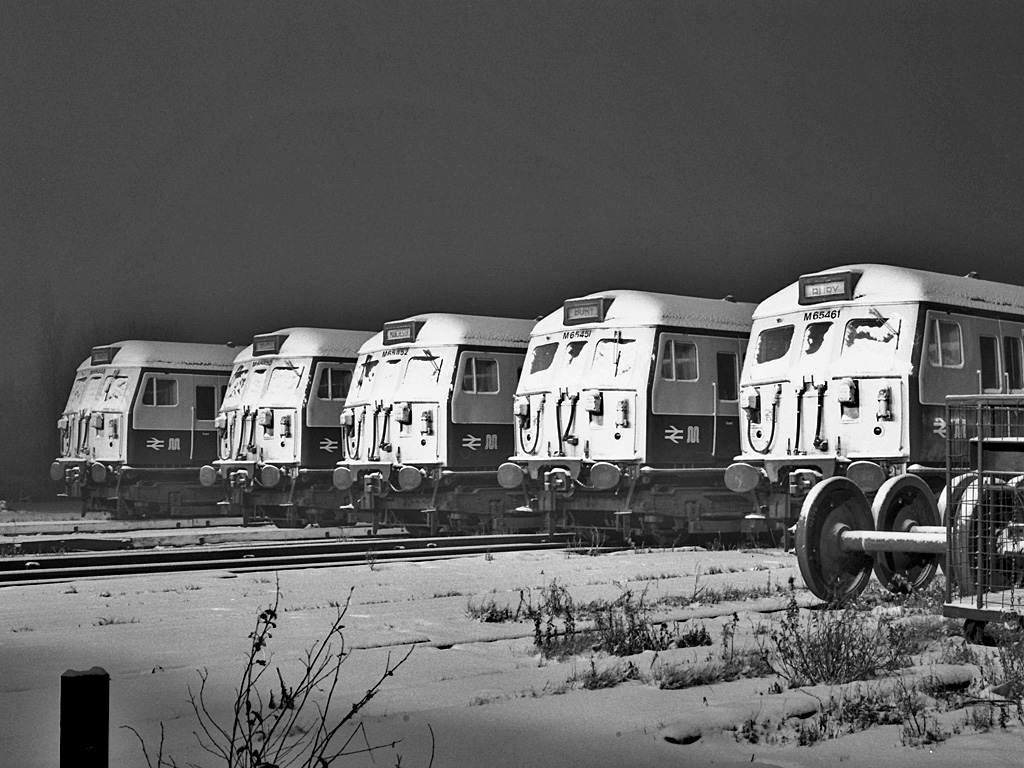 British Railways Wolverton Works class 504 1200V DC 3rd rail two car electric multiple units M65448 and M77169, M654450 and M77171, M65452 and M77173, M65451 and M77172, and M65461 and M77182 stands outside on their home depot on Bury Traction Maintenance Depot. Sunday 11th December 1983